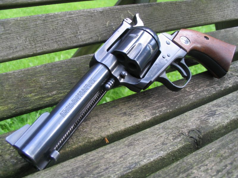 '69 Blackhawk Convertible .357 Mag / 9mmP